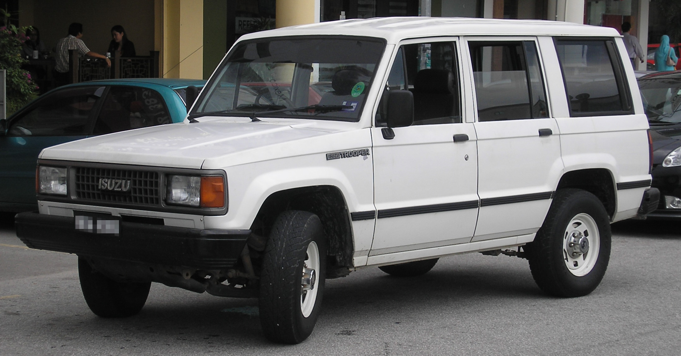 Front-side shot of a first generation, first facelift Isuzu Trooper, in Serdang, Selangor, Malaysia.